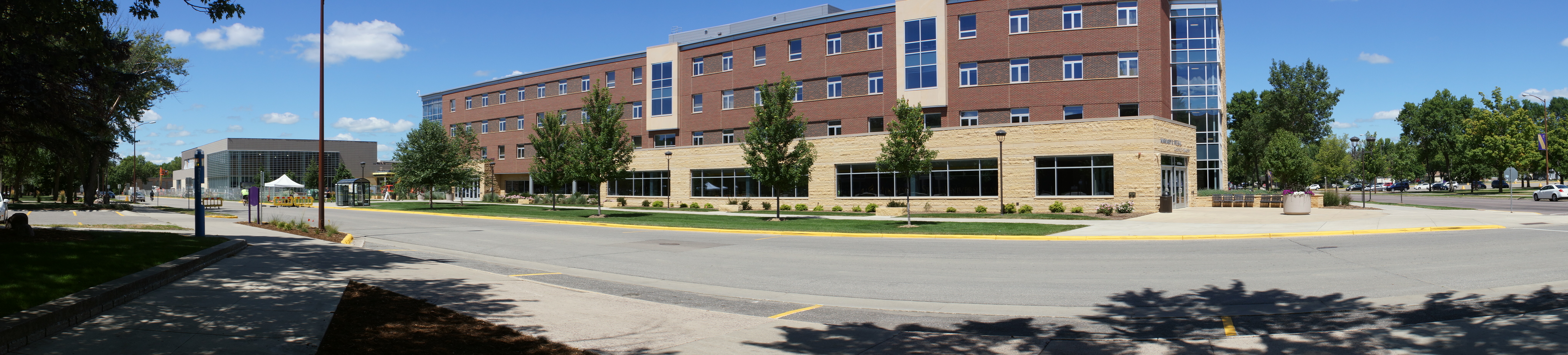 This is a panaroma picture of Preska Residence Hall, Classrooms and the new built Commons Dining Hall on the Minnesota State University, Mankato campus.